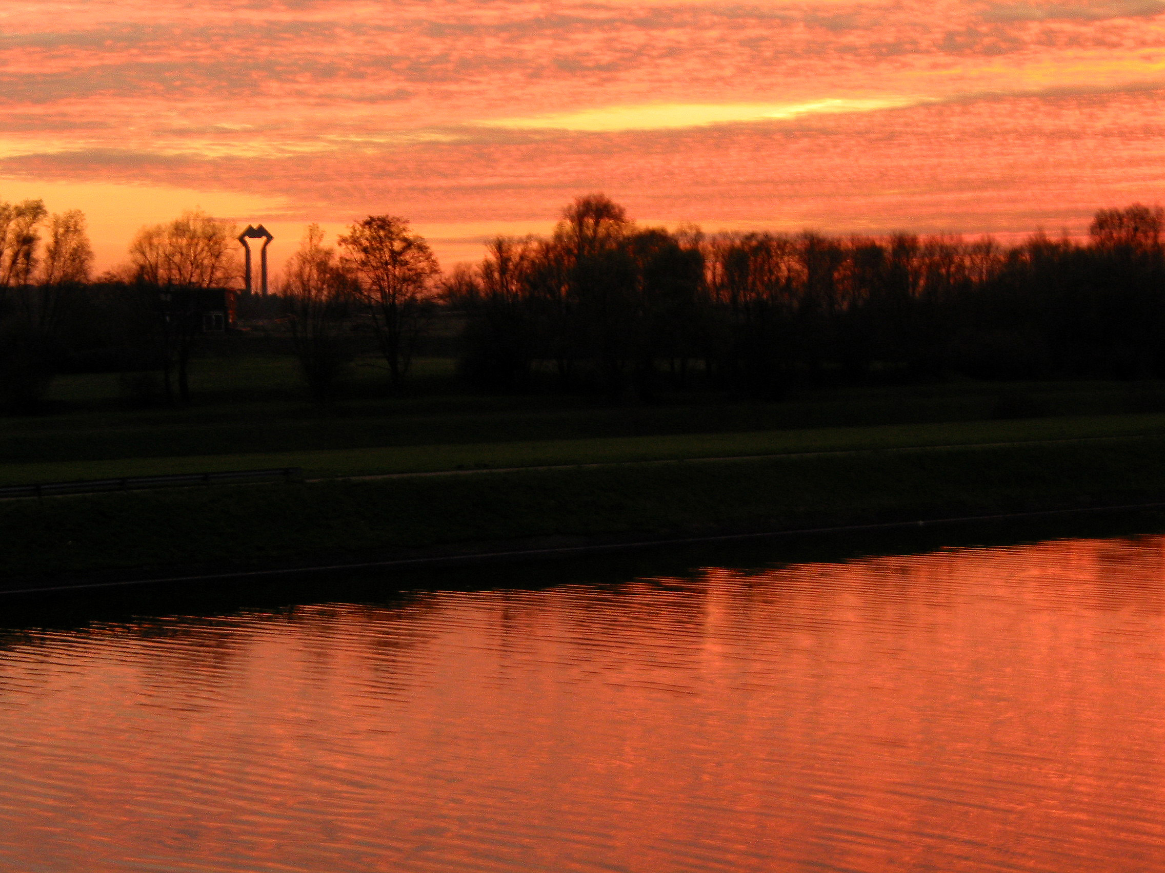 Hensies (Belgium), the monumental sculpture of the previous motorway customs checkpoint and the Pommeroeul-Condé canal under the Vulcain sky. Walon: Insî (Bèljike), li monumintale sculture di l'ancyin posse frontîére su l'autoroute èt l'canal Pomereul-Condé diso on cièl alumè pa Vulcin.